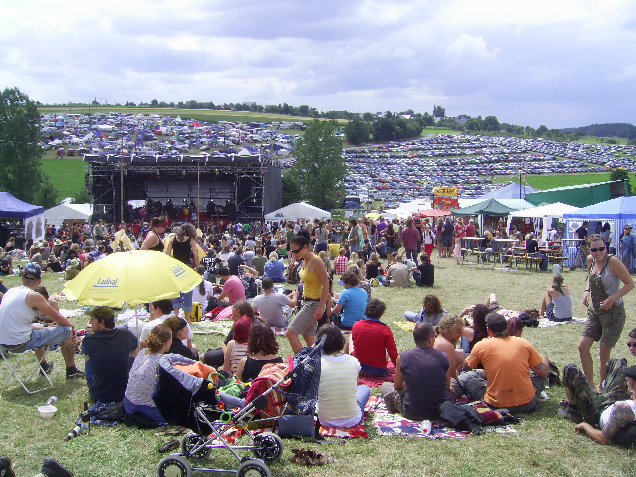 Lott-Music-Festival near Raversbeuren in the Hunsrück landscape, Germany.